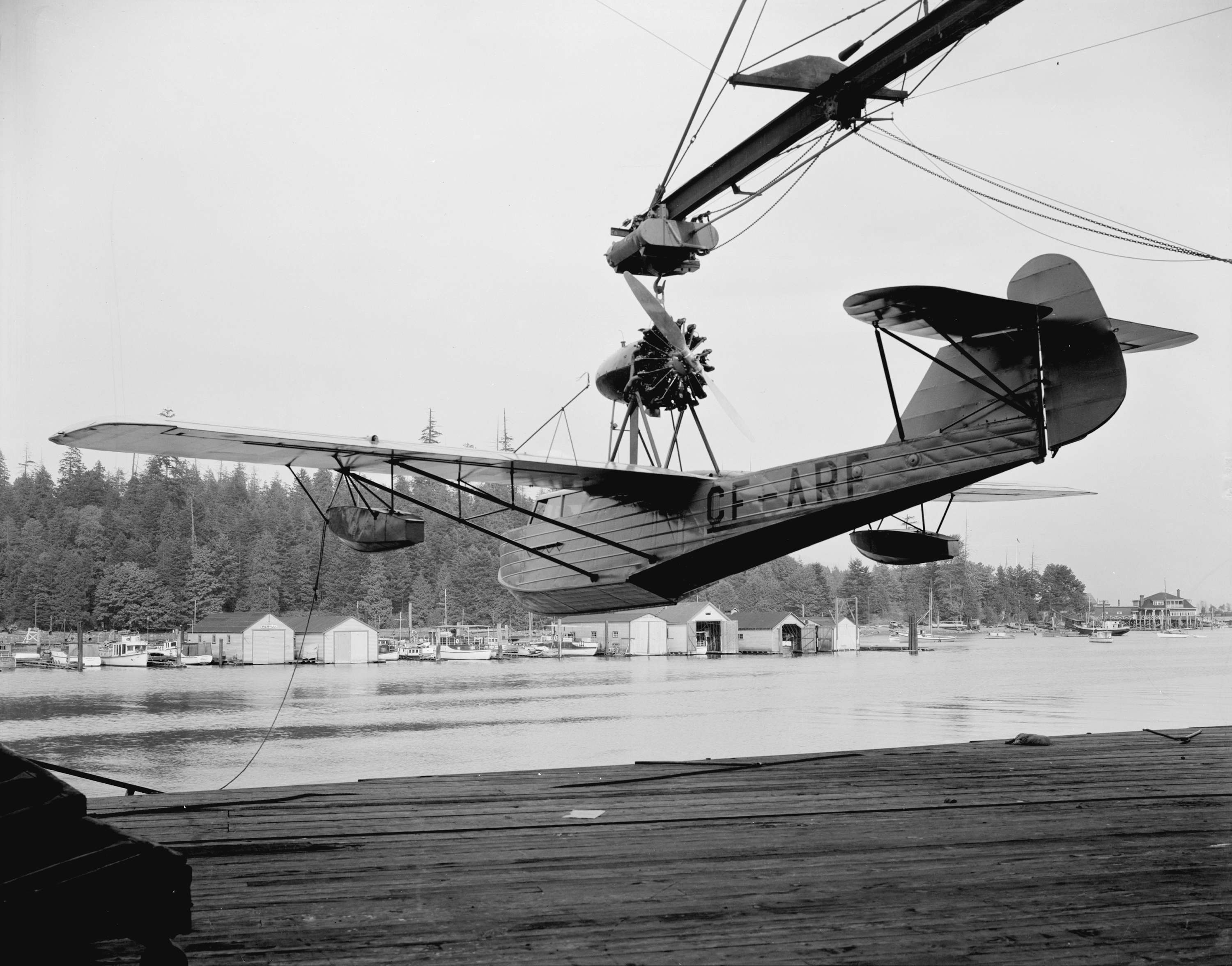 Boeing Aircraft Co. of Canada Totem flying boat CF-ARF on hoist rear